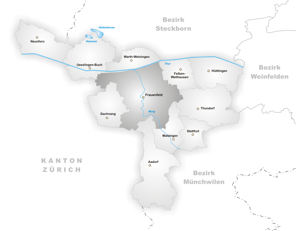 Municipality Frauenfeld